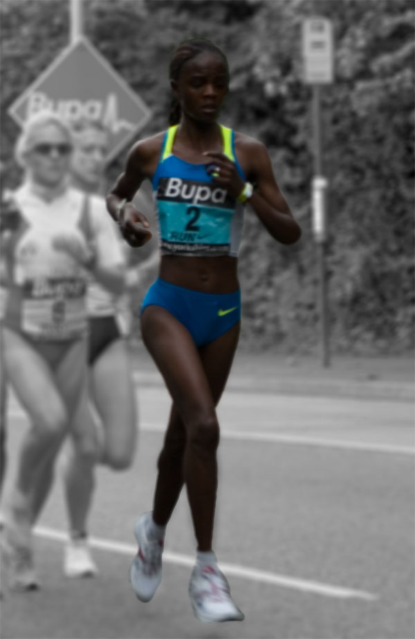 Grace Momanyi leading the Great Yorkshire Run 2008